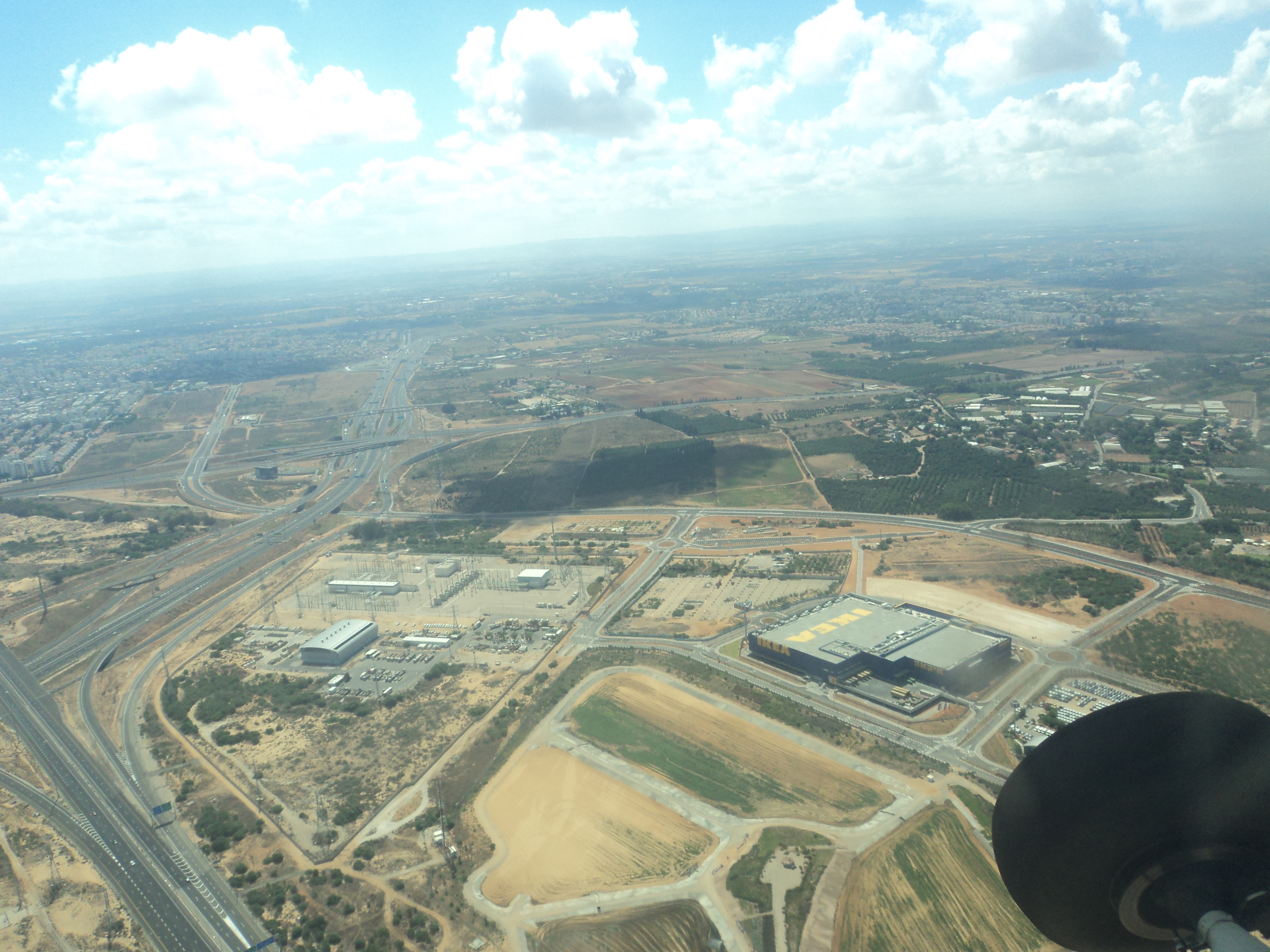 Ikea branch in Rishon-Lezion